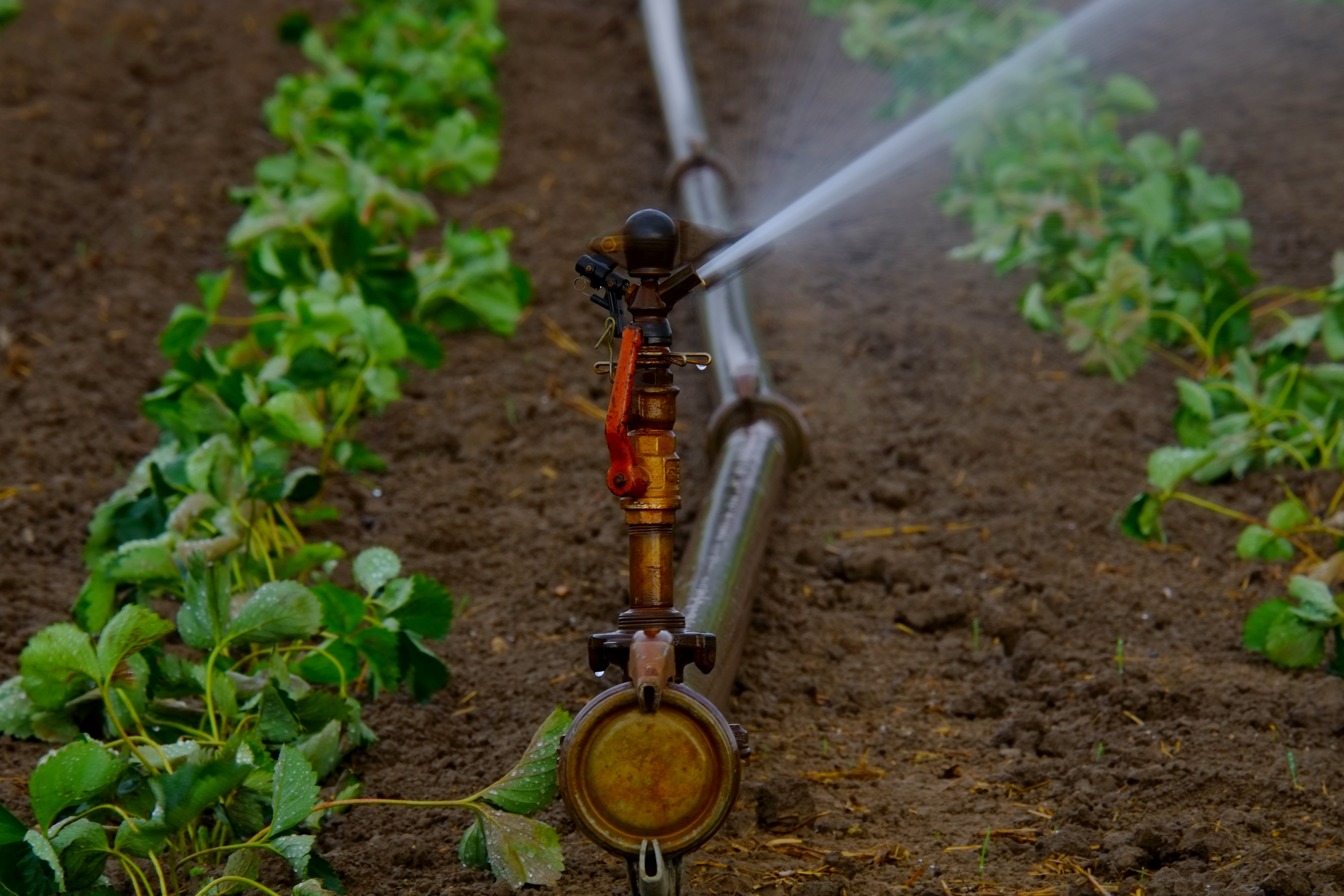 Agricultural Sprinklers